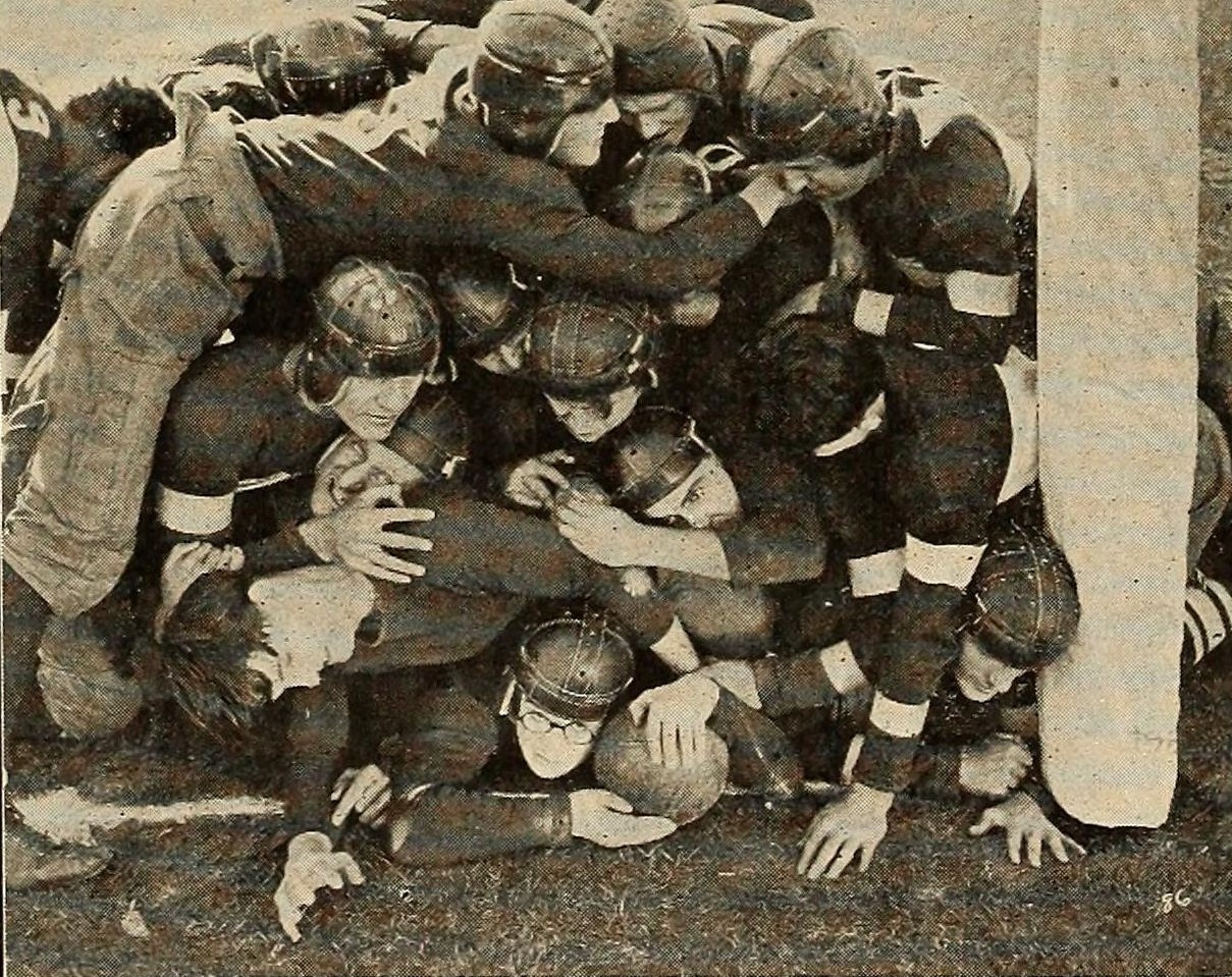 Exhibitor's Trade Review, September 12, 1925